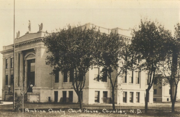 Photographic postcard of Pembina County Courthouse, Cavalier